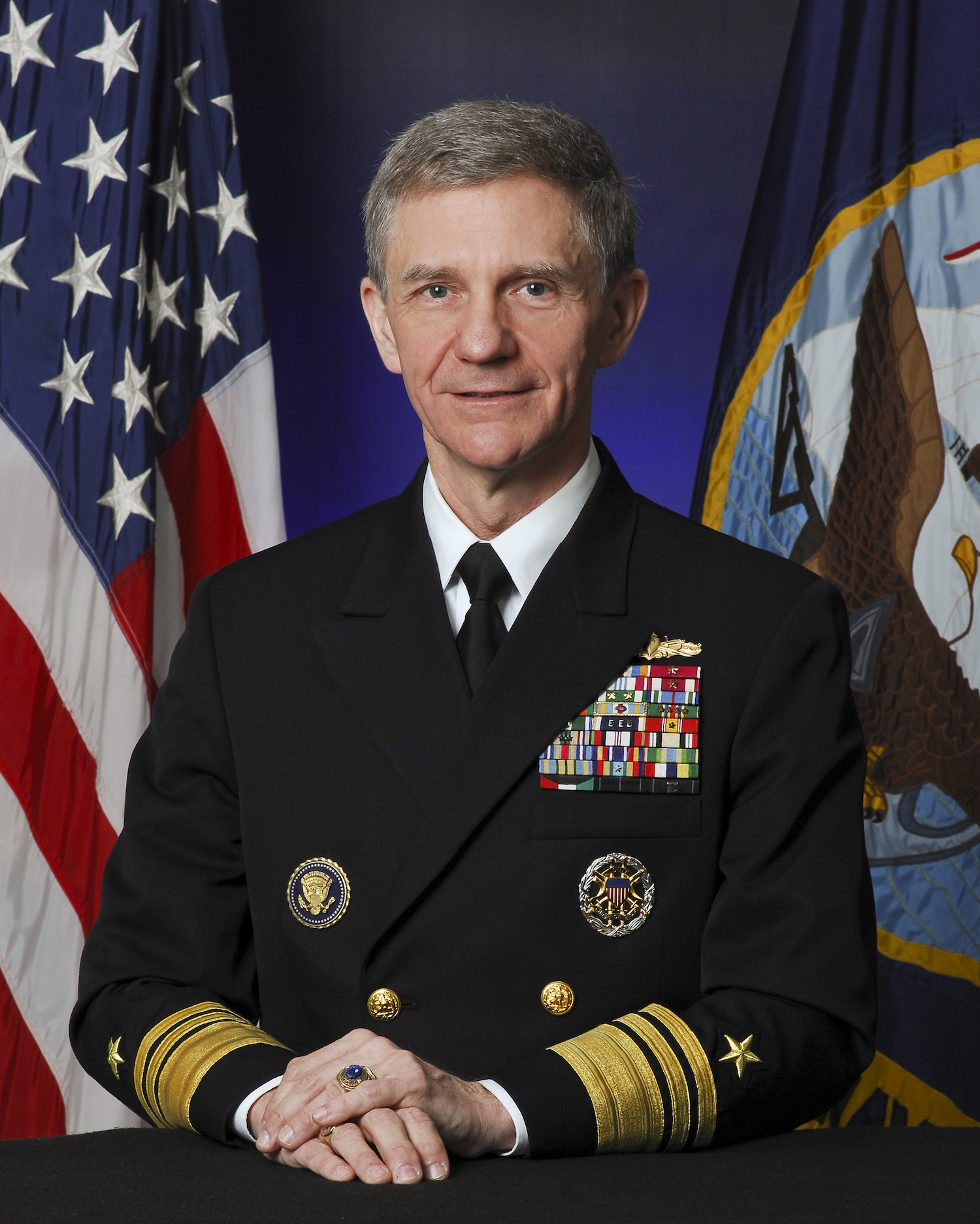 VICE ADMIRAL PHILIP HART CULLOM DEPUTY CHIEF OF NAVAL OPERATIONS FOR FLEET READINESS AND LOGISTICS